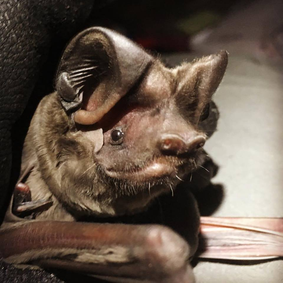 This photo is of an adult male Florida bonneted bat (Eumops floridanus) that was mist netted by University of Florida affiliates in Coral Gables, Florida in order to better understand the foraging ecology of this species.